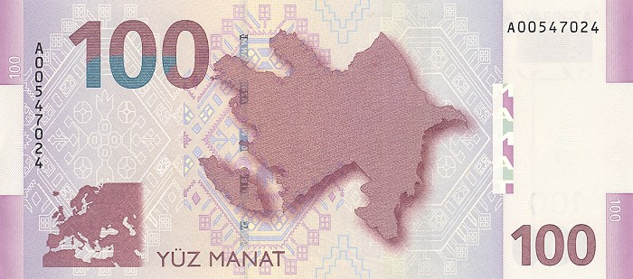 Reverse of 100 AZN